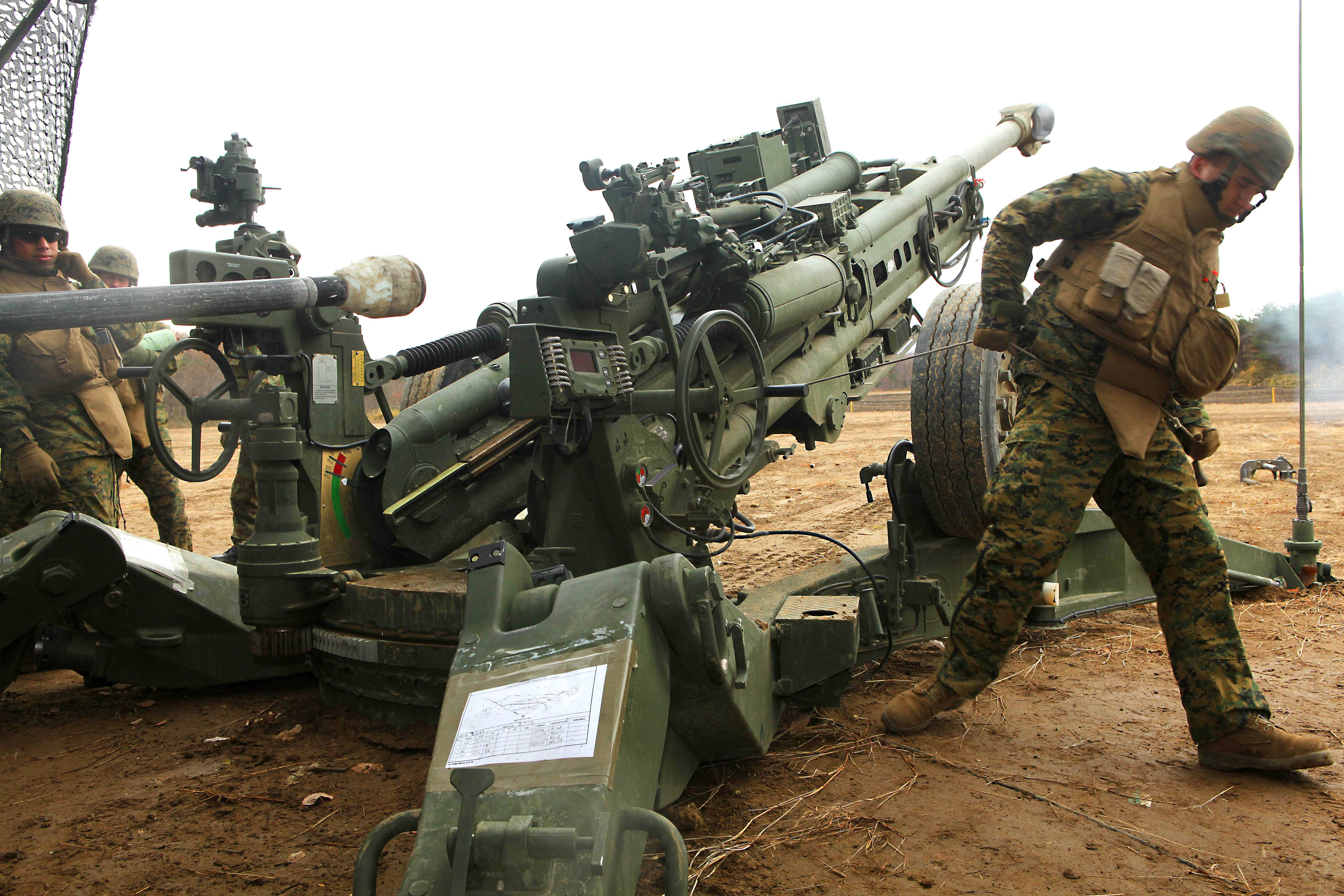 Gun Team Five fires a round from a M777A2 howitzer at Camp Sendai, Japan, in the Ojojihara Maneuver Area during Artillery Relocation Training Exercise 10-3 Ojojihara on Nov. 23, 2010. The Marines are assigned to the 3rd Marine Division's, Battery B, 3rd Battalion, 12th Marine Regiment, III Marine Expeditionary Force. The Marines are conducting live-fire artillery training to maintain operational readiness of the artillery battalion in support of the U.S. â€“ Japanese security alliance.